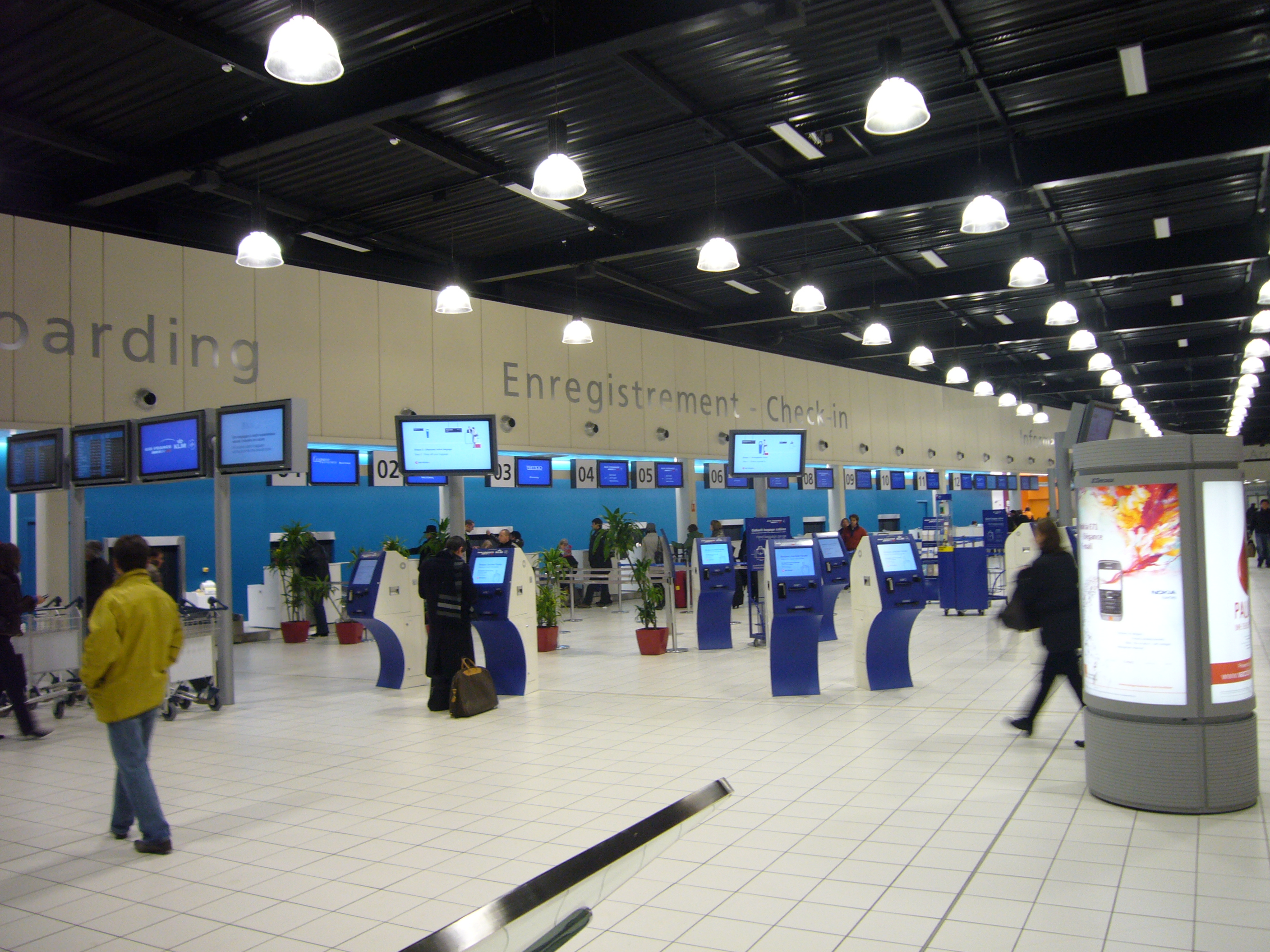 Check-in counters at Charles de Gaulle International Airport Terminal 2G